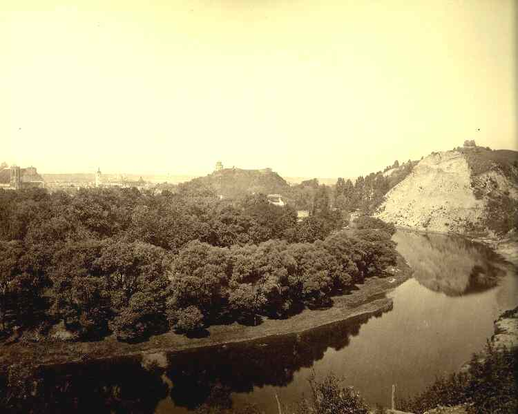 Vinia River near Sereikiškės Park. Remains of Bekesh Hill is on the right and Gediminas Hill with the tower is further in the middle.